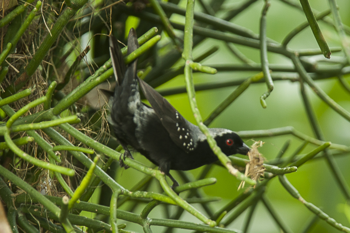 Gray-headed Negrofinch - Kibale NP - Uganda_H8O5163